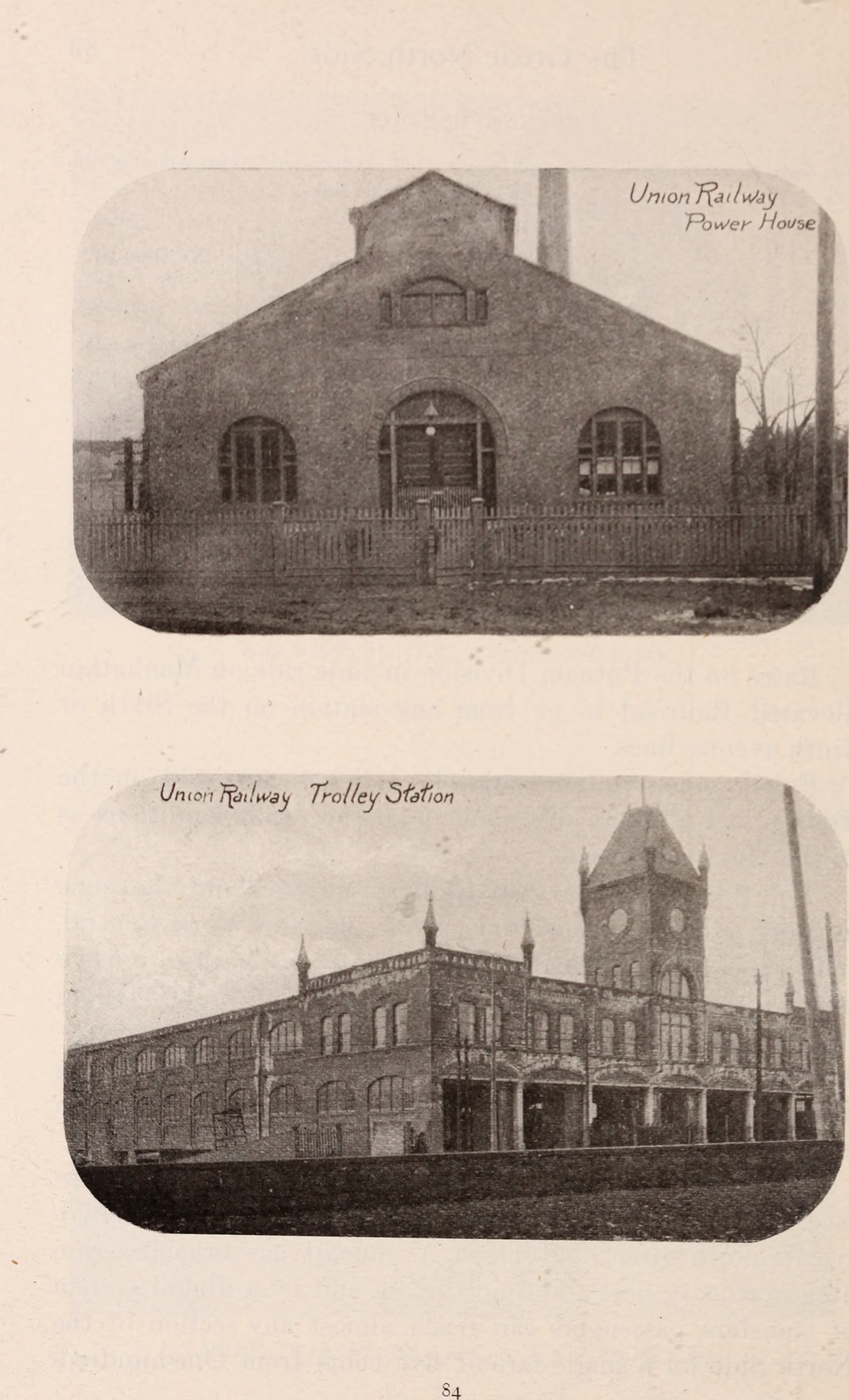 Title: The Great north side, or, Borough of the Bronx, New York Year: 1897 (1890s) Authors: Durst, Seymour B., 1913-, former owner. NNC North Side Board of Trade (Bronx, New York, N.Y.) Subjects: Publisher: New York : Knickerbocker Press Text Appearing Before Image: ed Railroad to or from any station on the Sixth orNinth avenue lines. Family commutation and school tickets are sold on theHudson and Putnam divisions under the same conditions ason the Harlem Division. The Suburban Elevated Railway serves about the sameterritory as the Harlem Division of the New York Central,and carries passengers from Tremont to the Battery for fivecents, a limited number of trains morning and evening makinga continuous trip, and all trains running at a few minutesheadway. There are also numerous express trains. Runningtime from City Hall to Tremont, express trains forty-sevenminutes, regular trains fifty-two minutes. The Union Railway Company operates eight lines of sur-face cars on the trolley system. Starting at One-hundred-and-twenty-ninth Street and Third Avenue, it has branches run-ning northeast, north, and northwest, and by a liberal systemof transfers, passengers can reach almost any section of theNorth Side for a single fare of five cents from One-hundred- Text Appearing After Image: The Great North Side. 85 and-twenty-ninth Street and Third Avenue on the East Side,or One-hundred-and-thirty-fifth Street and Eighth Avenue onthe West Side. It will be seen, therefore, that if transit facilities and ad-vantages of inter-coinmunication constitute a potent factor, ifnot the most potent factor, in urban growth, then everycitizen of the North Side must naturally take the most optimis-tic view of the rapid growth of his favorite locality, and erelong receive the reward of his enterprise.